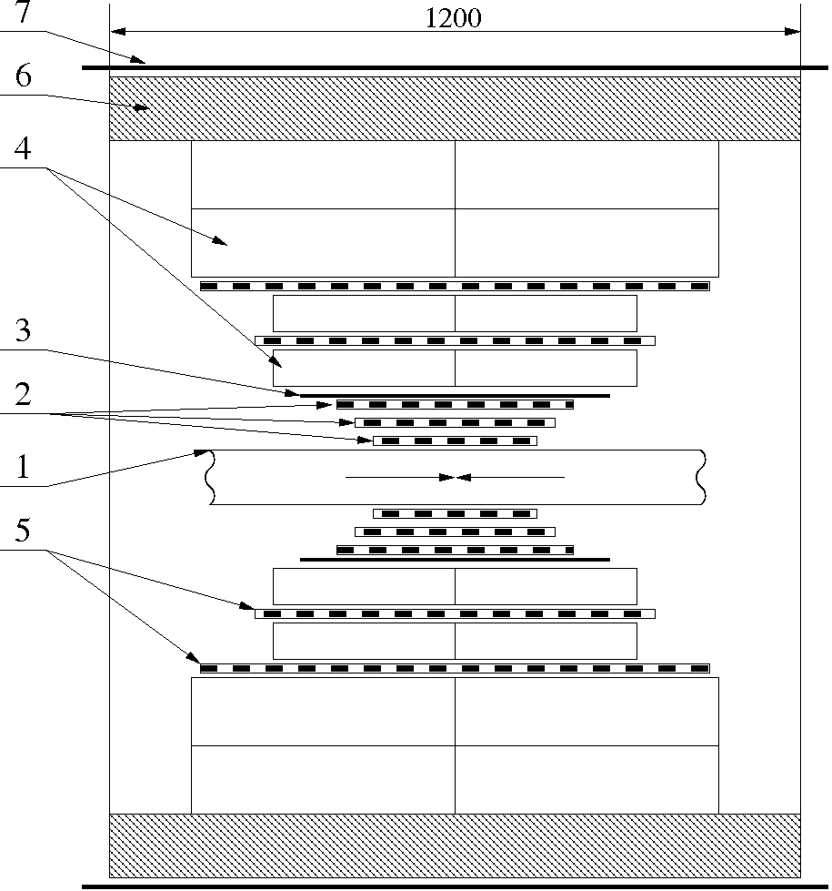 Scetch of the Neutral Detector r-phi projection